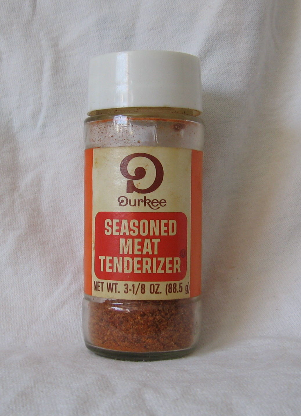 It Came From the Spice Cabinet! I'm not surprised this is still in the cabinet -- I've probably had this on more bee stings than pieces of meat.